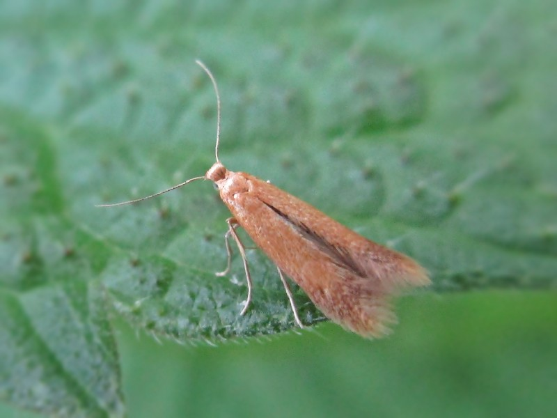 Tischeria ekebladella (Tischeriidae sp.), Elst (Gld), the Netherlands